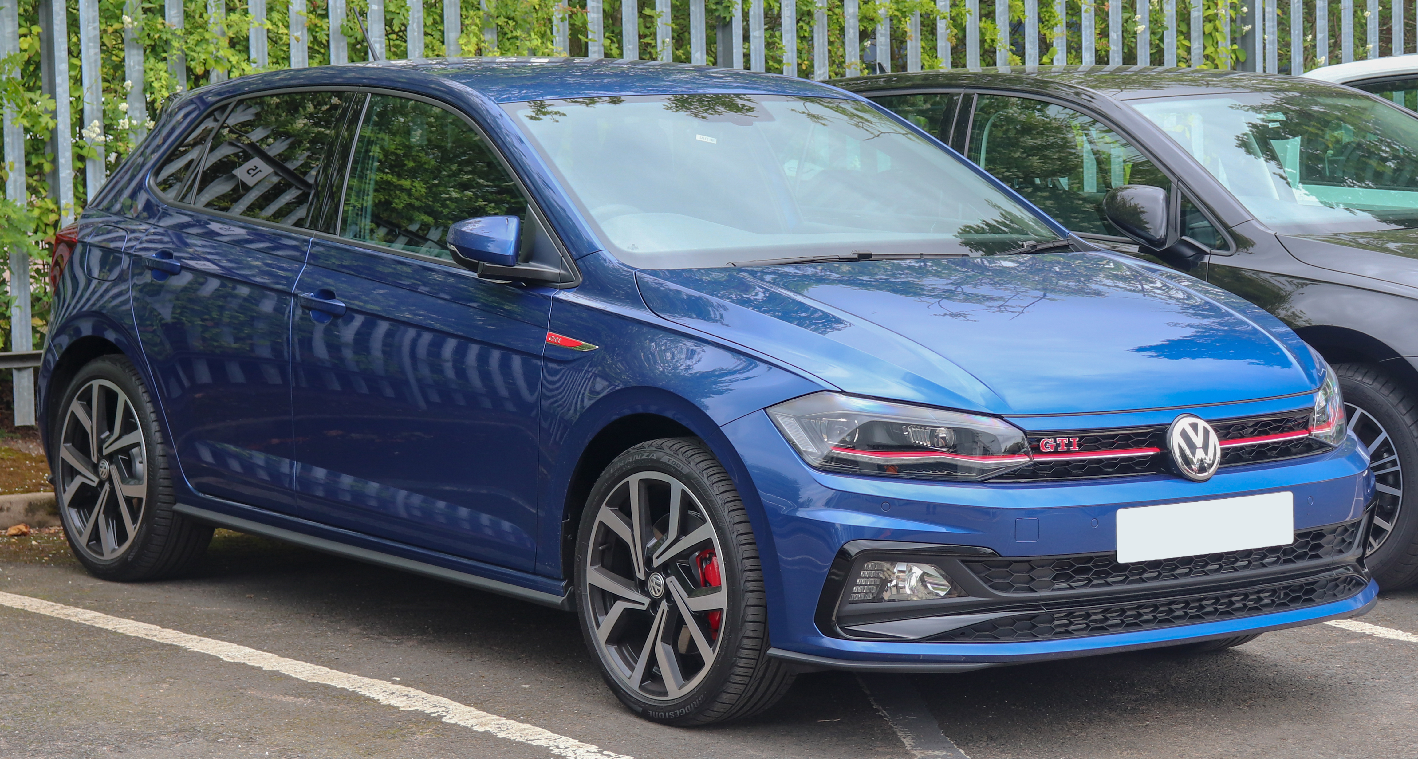 2019 Volkswagen Polo GTi Plus TSi S-A 2.0 Taken in Leamington Spa